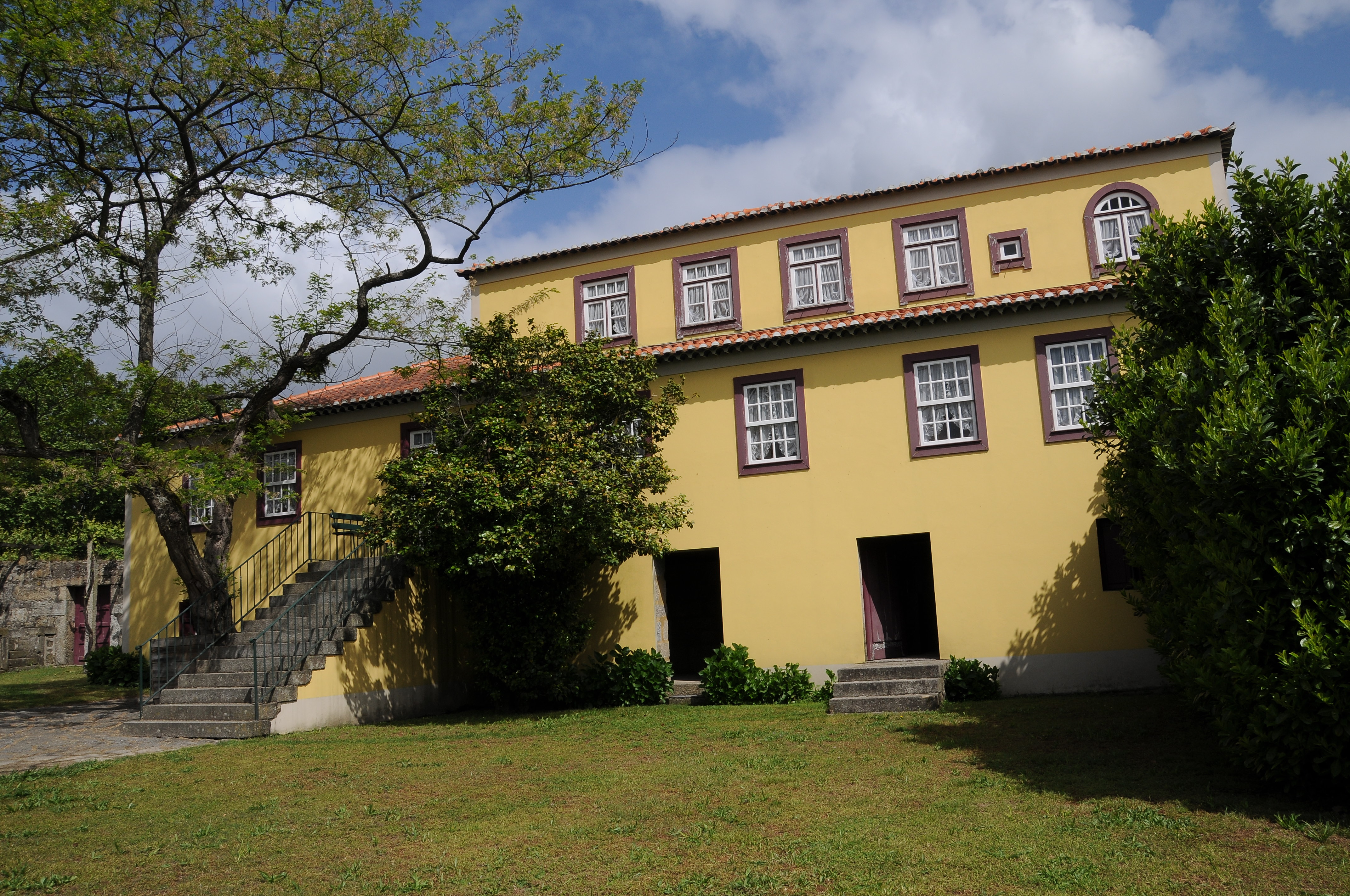 Camilo Castelo Branco House in Seide, Famalicão, Portugal.